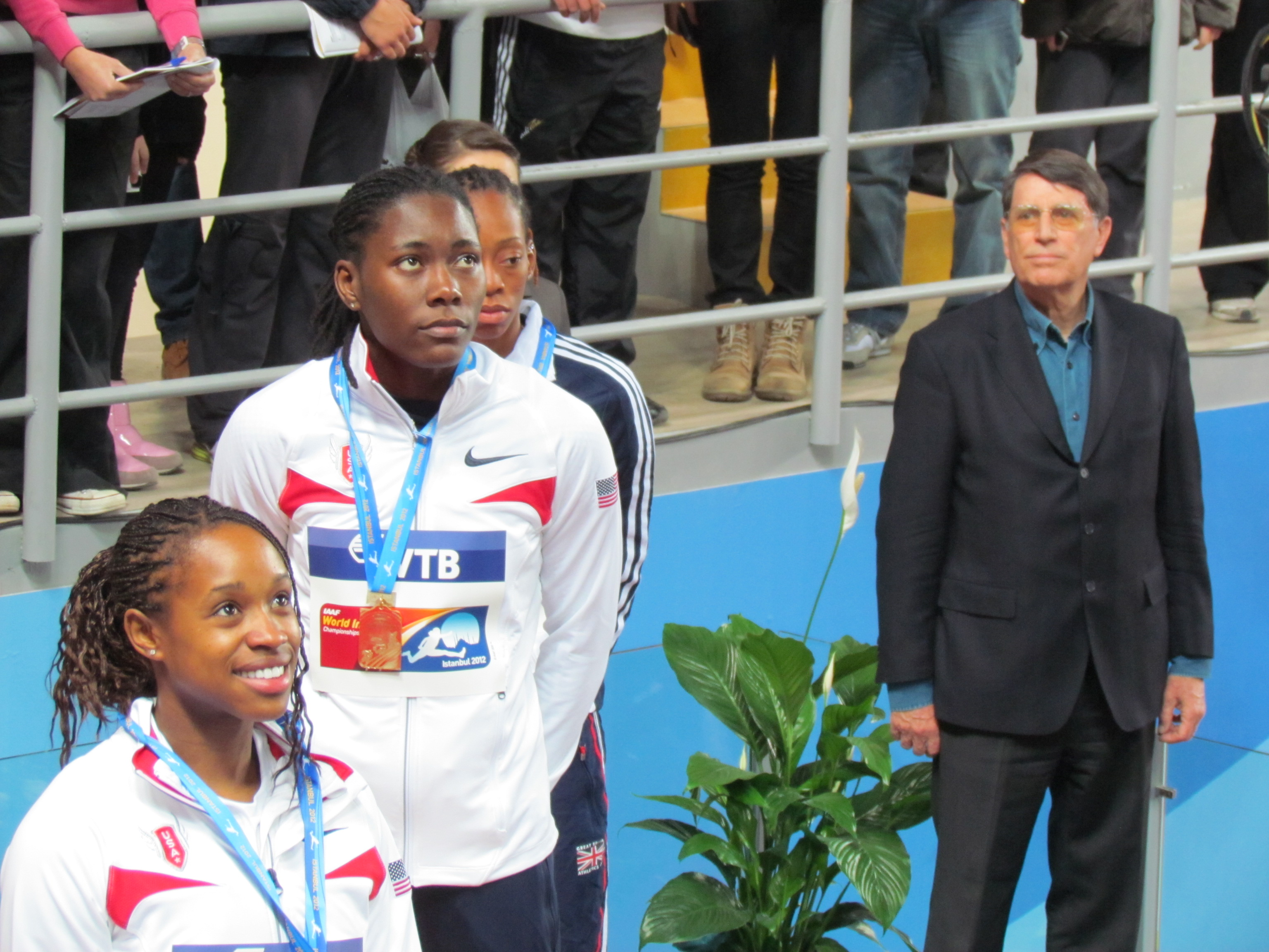 The 2012 IAAF World Indoor Championships in Athletics was the 14th edition of the global-level indoor track and field competition and was held between March 9–11, 2012 at the Ataköy Athletics Arena in Istanbul, Turkey. Janay DeLoach, Brittney Reese, Shara Proctor